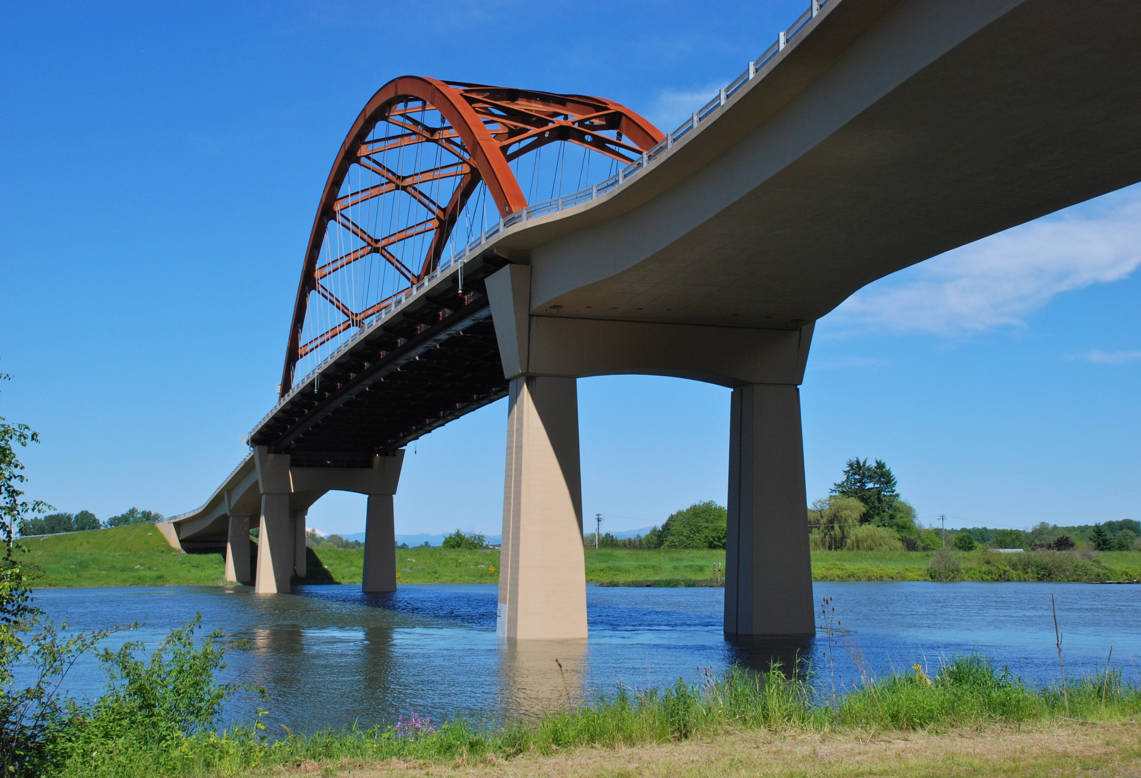 The second Sauvie Island Bridge (near Portland, Oregon) was built in 2008 and replaced a 1950 bridge. The bridge spans the Multnomah Channel, a distributary of the Willamette River, and this photo was taken from the channel's west bank, looking east.